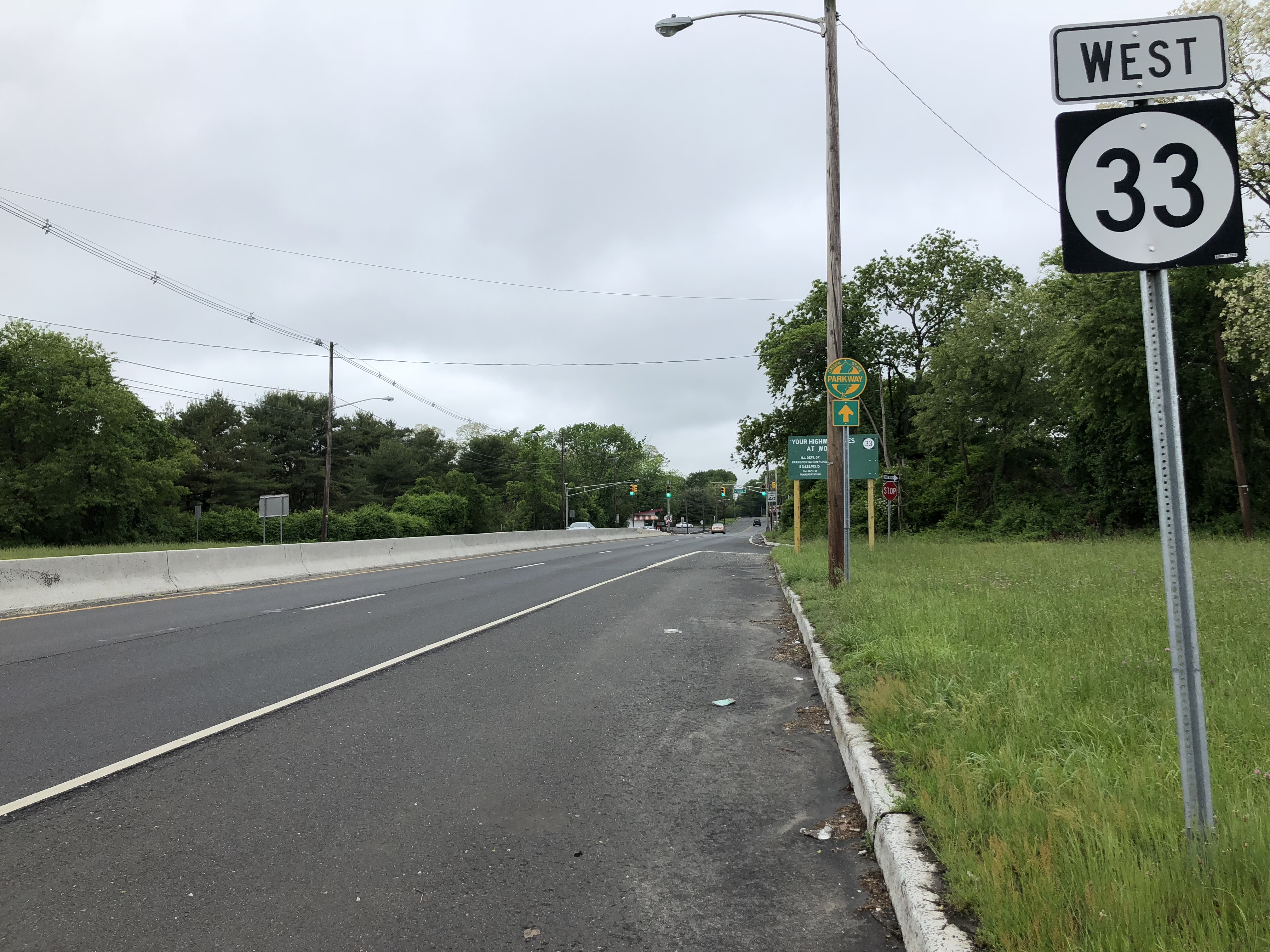 View west along New Jersey State Route 33 (Corlies Avenue) just west of New Jersey State Route 18 in Neptune Township, Monmouth County, New Jersey